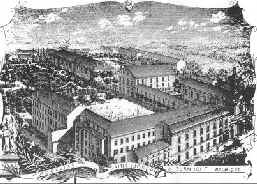 Oud college Turnhout